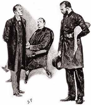 Illustration of the Sherlock Holmes short story The Blue Carbuncle, which appeared in The Strand Magazine in January, 1892. Original caption was "HE BOWED SOLEMNLY TO BOTH OF US."